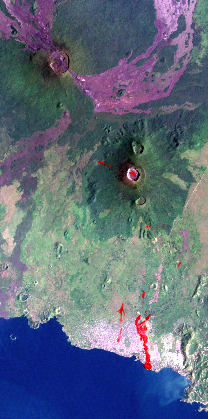 Depiction of the Nyiragongo and Nyamuragira volcanoes, based on data from the Shuttle Radar Topography Mission, Advanced Spaceborne Thermal Emission and Reflection Radiometer, or Aster, and Landsat. Some lava flows (not all) from the 2002-01-17 eruption are shown in red.